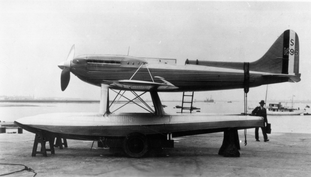 PictionID:40971510 - Title:Supermarine S.6B S1596 1931 - Catalog:15_002849 - Filename:15_002849.tif - PictionID:40971474 - Title:Lancer Republic YP-43 - Catalog:15_002846 - Filename:15_002846.tif - Image from the Charles Daniels Photo Collection album "US Army Aircraft."----PLEASE TAG this image with any information you know about it, so that we can permanently store this data with the original image file in our Digital Asset Management System.----SOURCE INSTITUTION: San Diego Air and Space Museum Archive